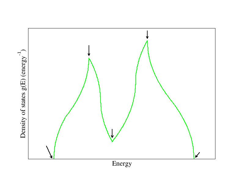 The density of states g(E) for a typical three-dimensional solid showing van Hove singularities indicated by black arrows. The function g(E) tends to have square-root singularities since and since for a spherical Fermi surface so that . Created by Alison Chaiken using xmgrace.